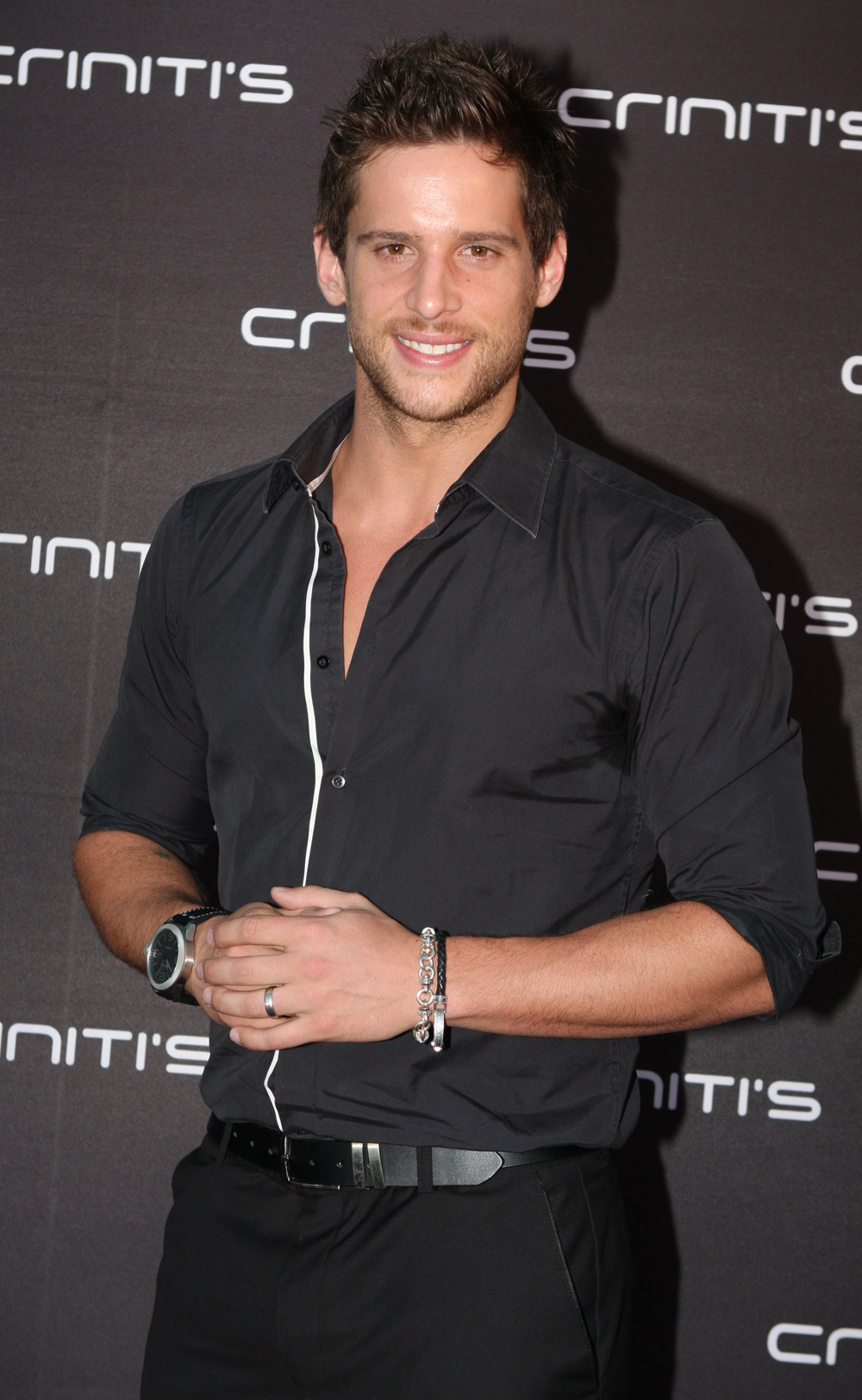 Criniti's celebrated their tenth birthday and rolled out the red carpet tonight.